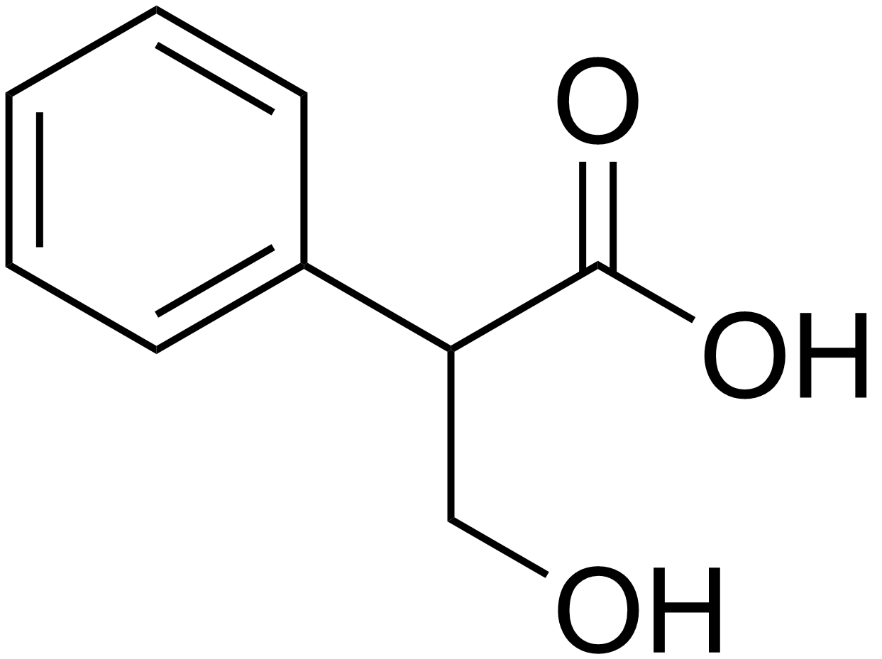 Chemical structure of tropic acid